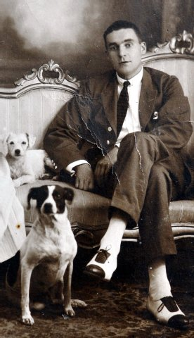 Titanic survivor Alfred Nourney with his pets.